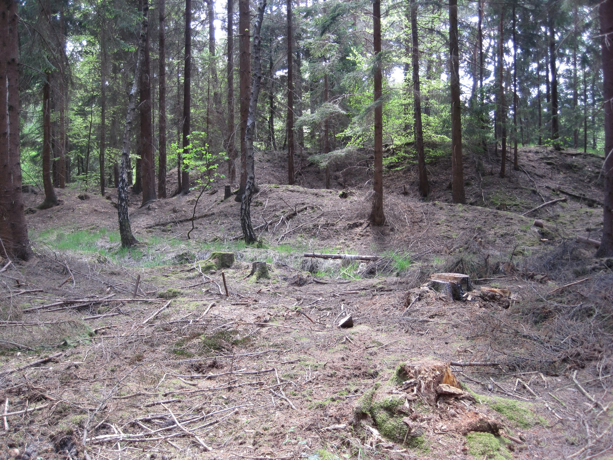 Remains of Galilei mines in Königsforst near Cologne